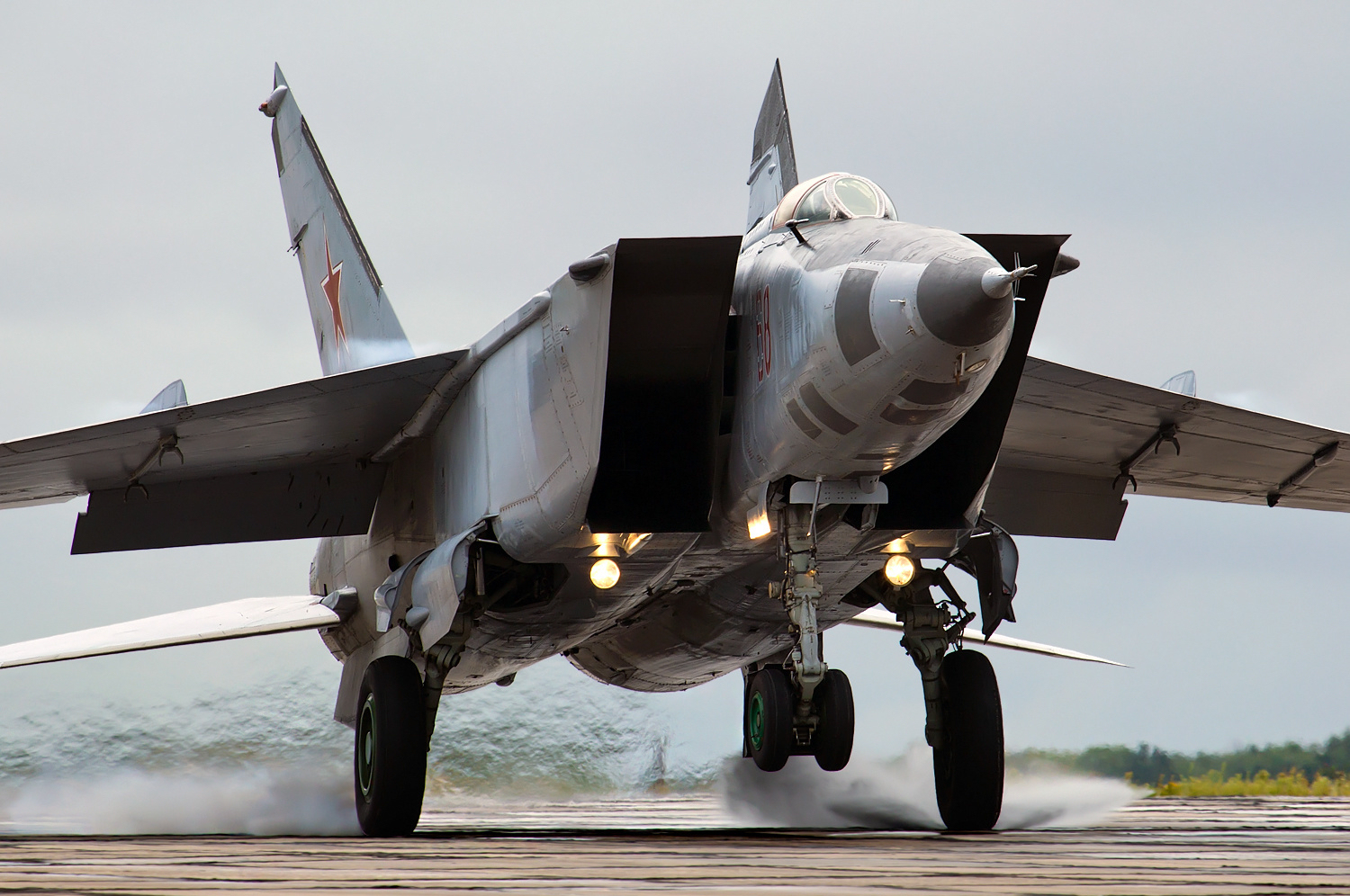 Russian Air Force Mikoyan-Gurevich MiG-25RB